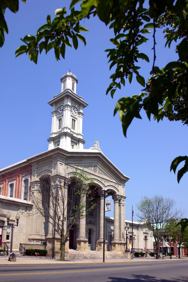 The Ross County Courthouse in Chillicothe, 2006